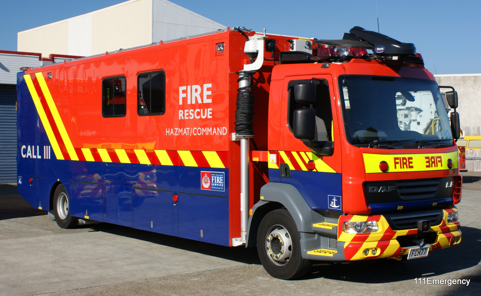 Wellington Hazmat and Command Unit